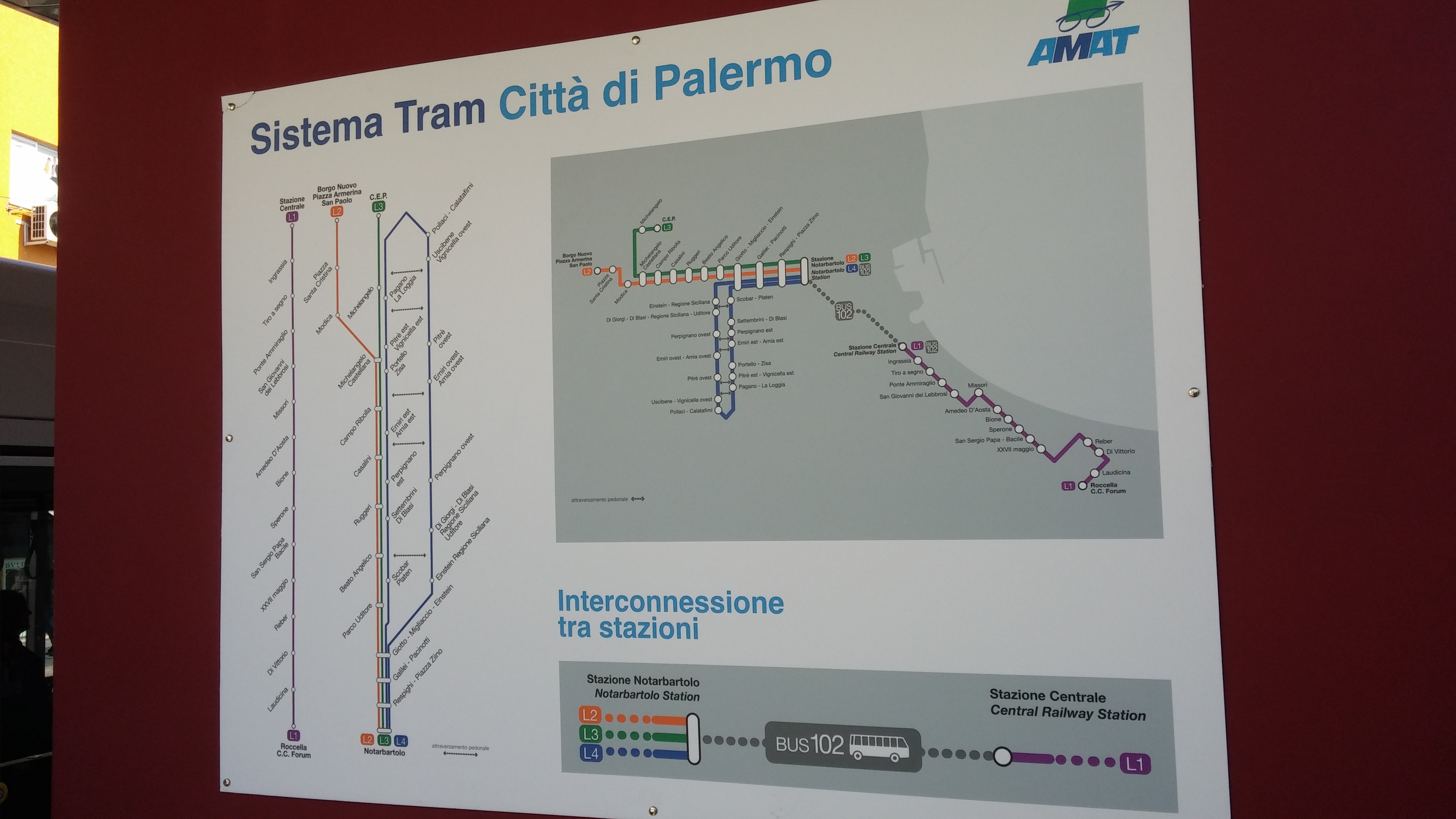 Palermo, AMAT Tramway System Map